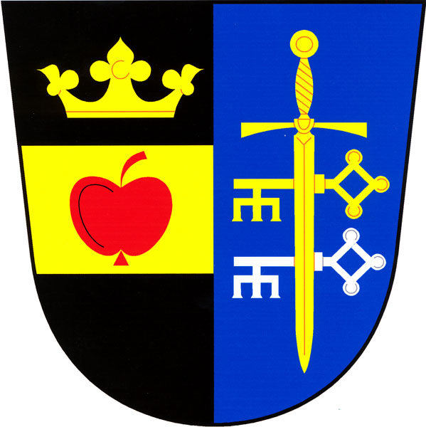 Coat of amrs of Rosovice , District Příbram, Czech Republic